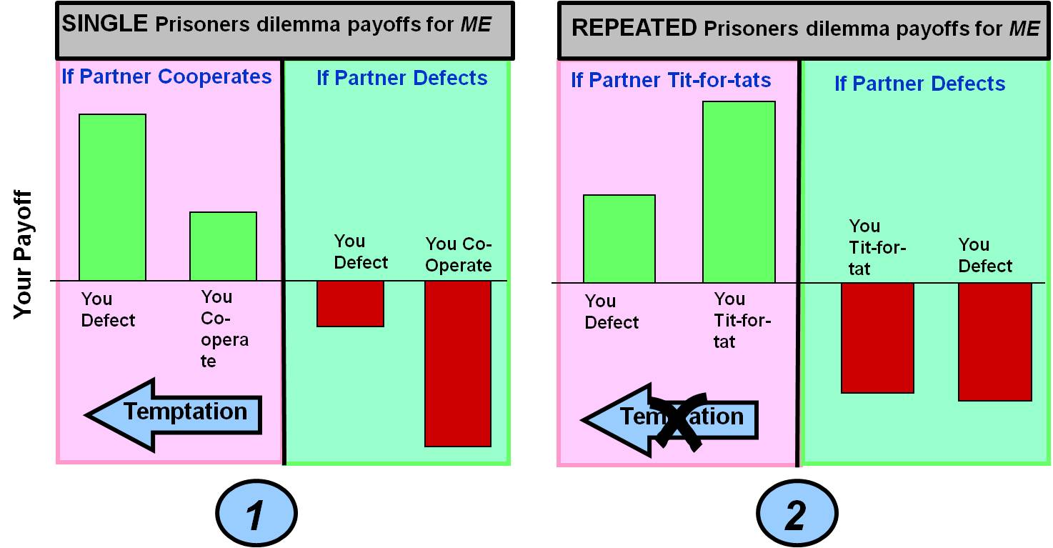 Payoff for the Single and Repeated Prisoners Dilemma game compared